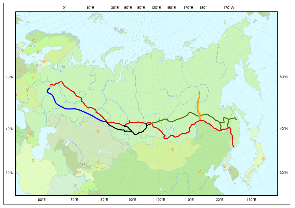 Map showing the location of main railway lines in Russia, including Amur Yakutsk Mainline (AYaM) (orange) in relation to the Trans-Siberian Railway (red) and Baikal Amur Mainline (BAM) (green).